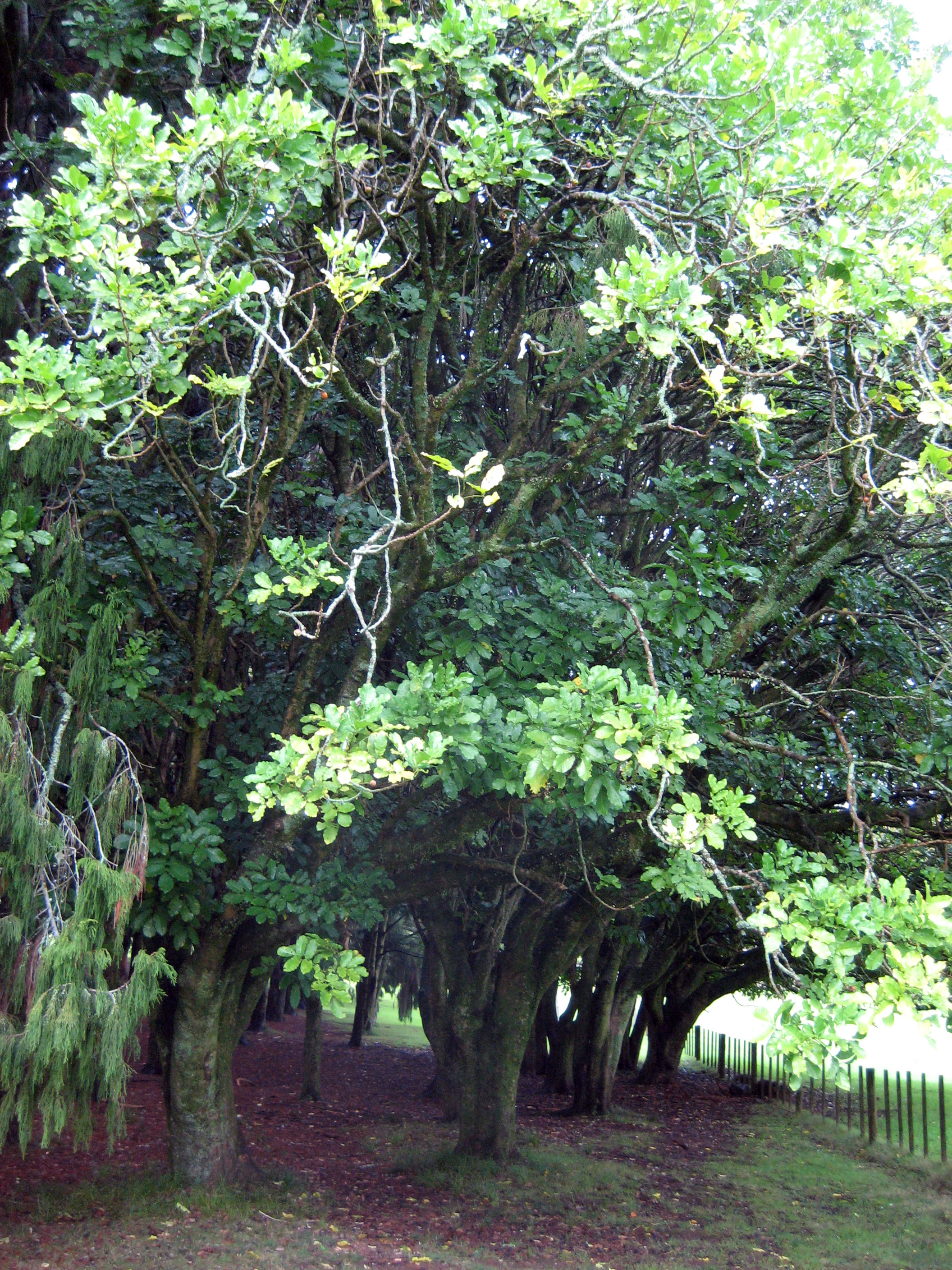 Dysoxylum spectabile, Kohekohe, trees in Cornwall Park, Auckland, New Zealand